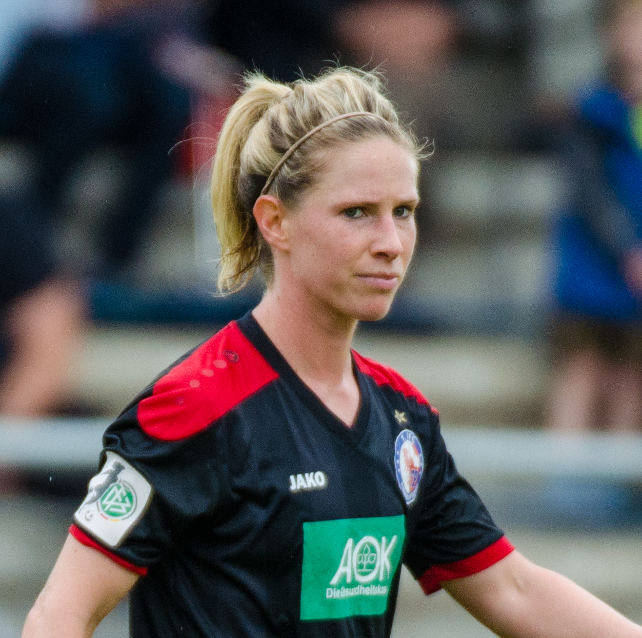 Match of the German Women's Football Bundesliga between 1.FFC Frankfurt and 1. FFC Turbine Potsdam, 2015-09-13